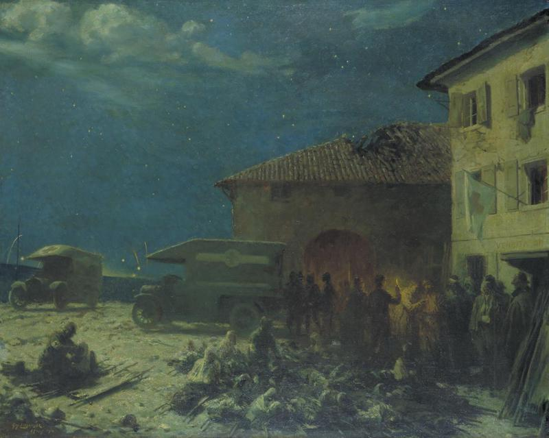 British Red Cross Ambulance, Italian Front, 1916 image: A night scene showing a group of wounded soldiers in the courtyard of an Italian farmyard. There are two stationary motor ambulances to the left and doctors attend a group of wounded lying on stretchers in the foreground. Walking wounded are assessed by candlelight to the right in front of the farmhouse, which has a red cross flag flying above the front door.